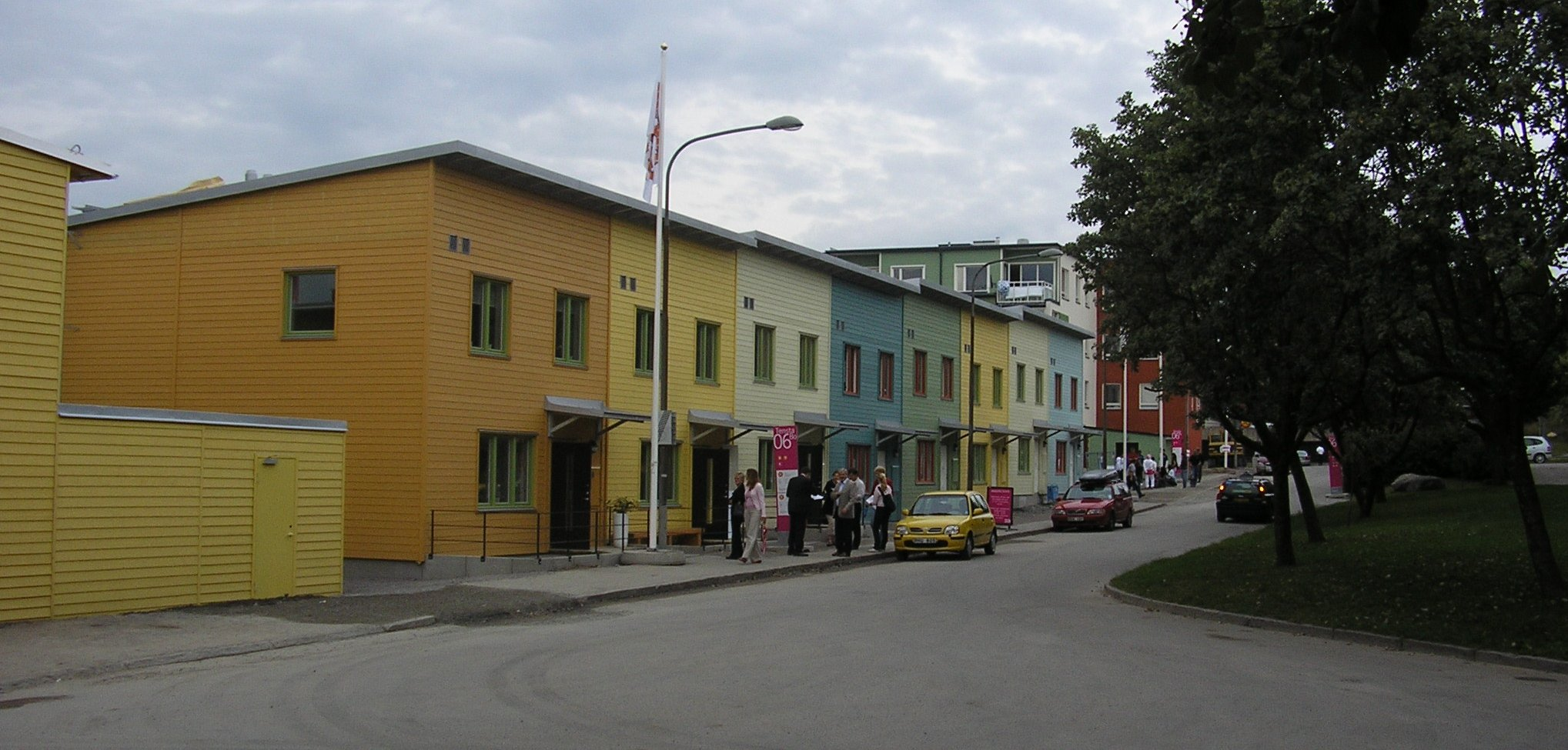 Terraced house in Tensta.